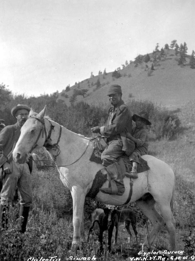 Chilcotin natives on horse, Cariboo Region, B.C., Canada